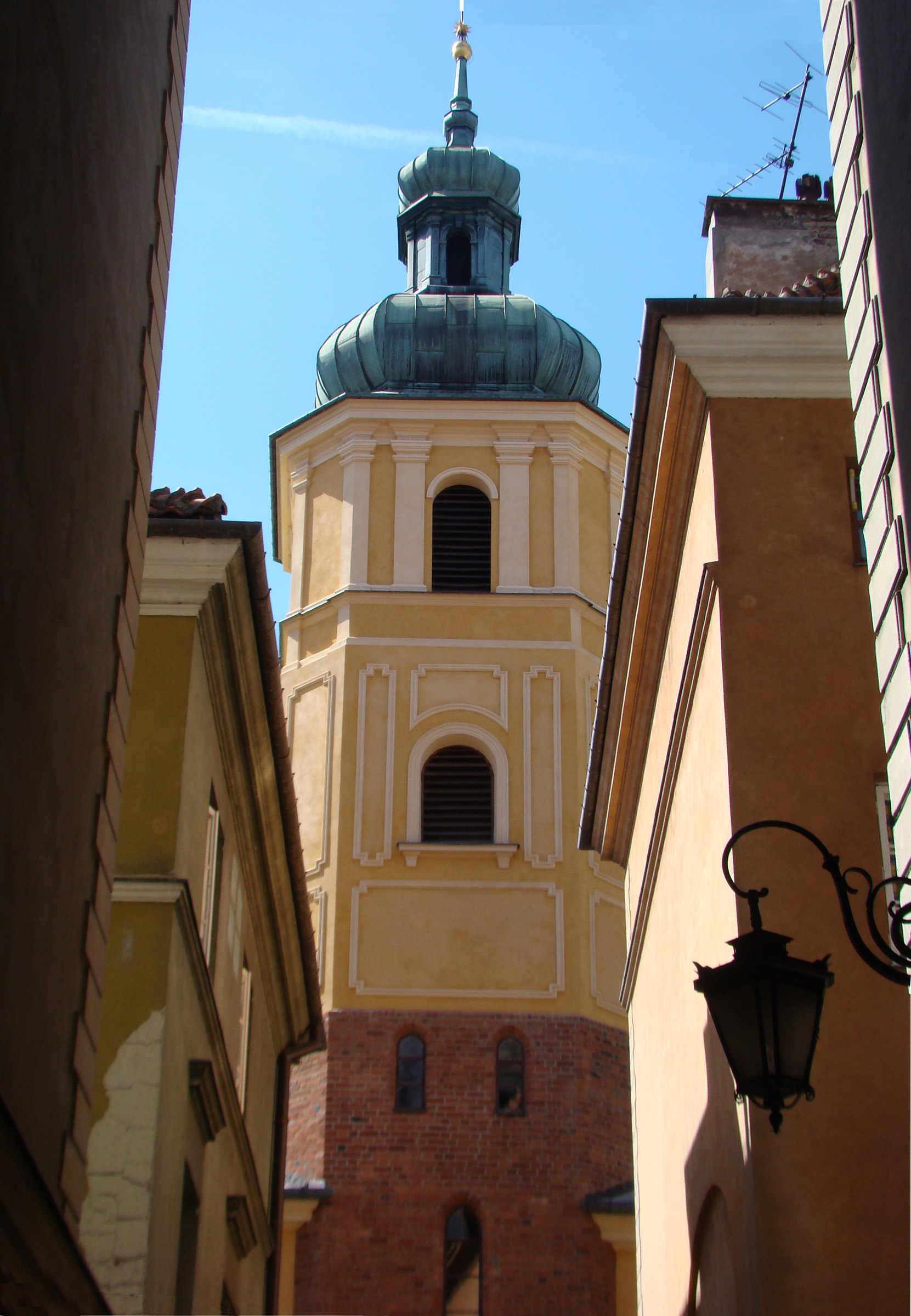 St. Martin church tower, Piwna Street, Warsaw